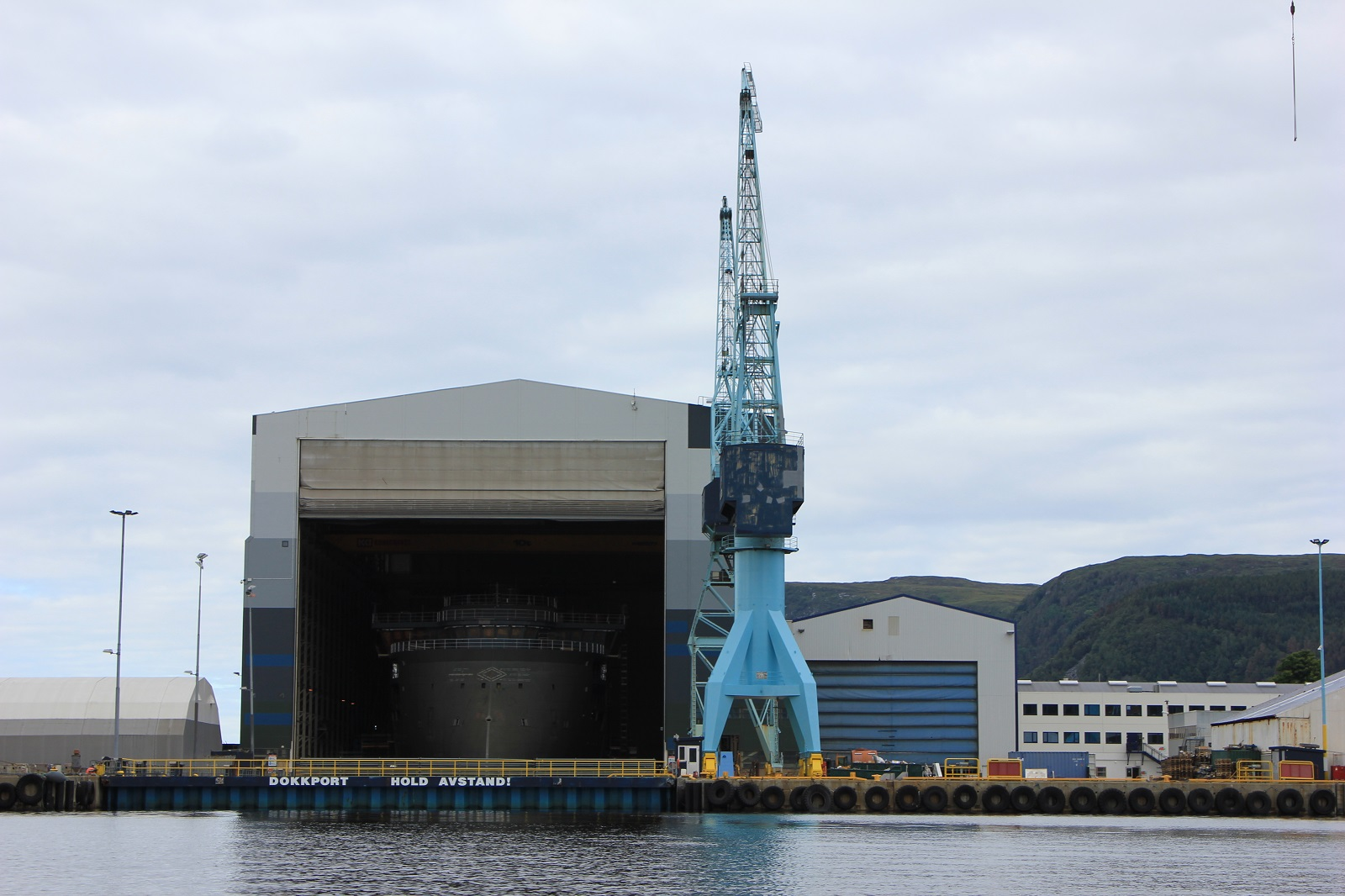 Ulstein verft AS, seaside view